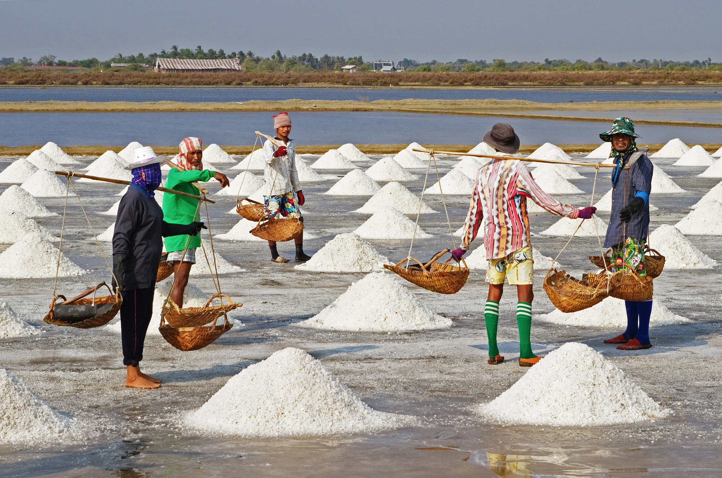 Salt farmers harvesting salt, Pak Thale, Ban Laem, Phetchaburi, Thailand